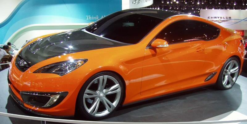 Genesis Coupe Picture.